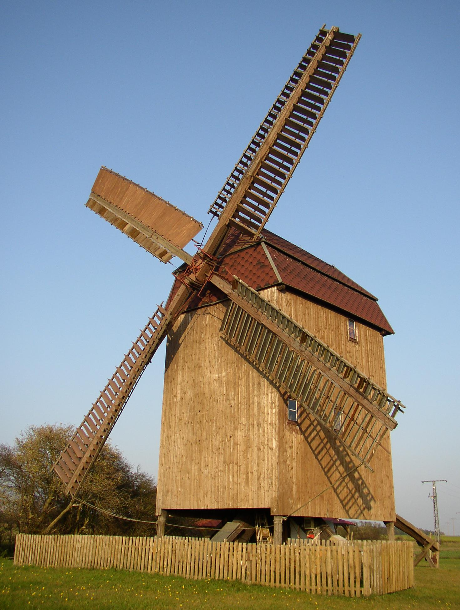 Windmill in Niedergörsdorf-Mellnsdorf in Brandenburg, Germany